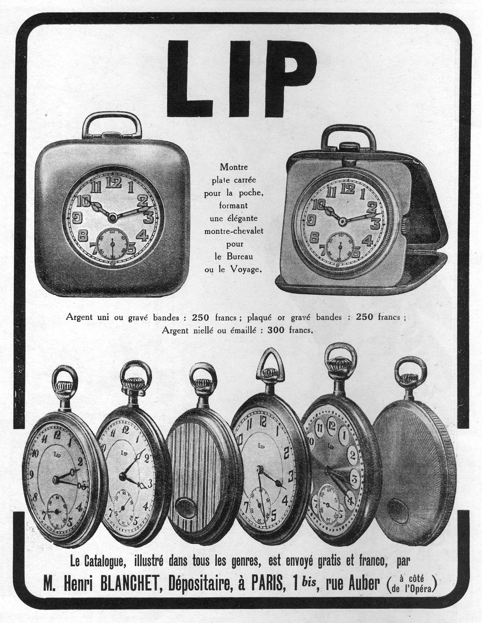 LIP advertisement of 1924